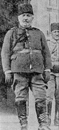 Ahmed Izzet Pasha (1864 – 31 March 1937), one of the last grand viziers of the Ottoman Empire (14 October 1918 - 8 November 1918) and its last Minister of Foreign Affairs.